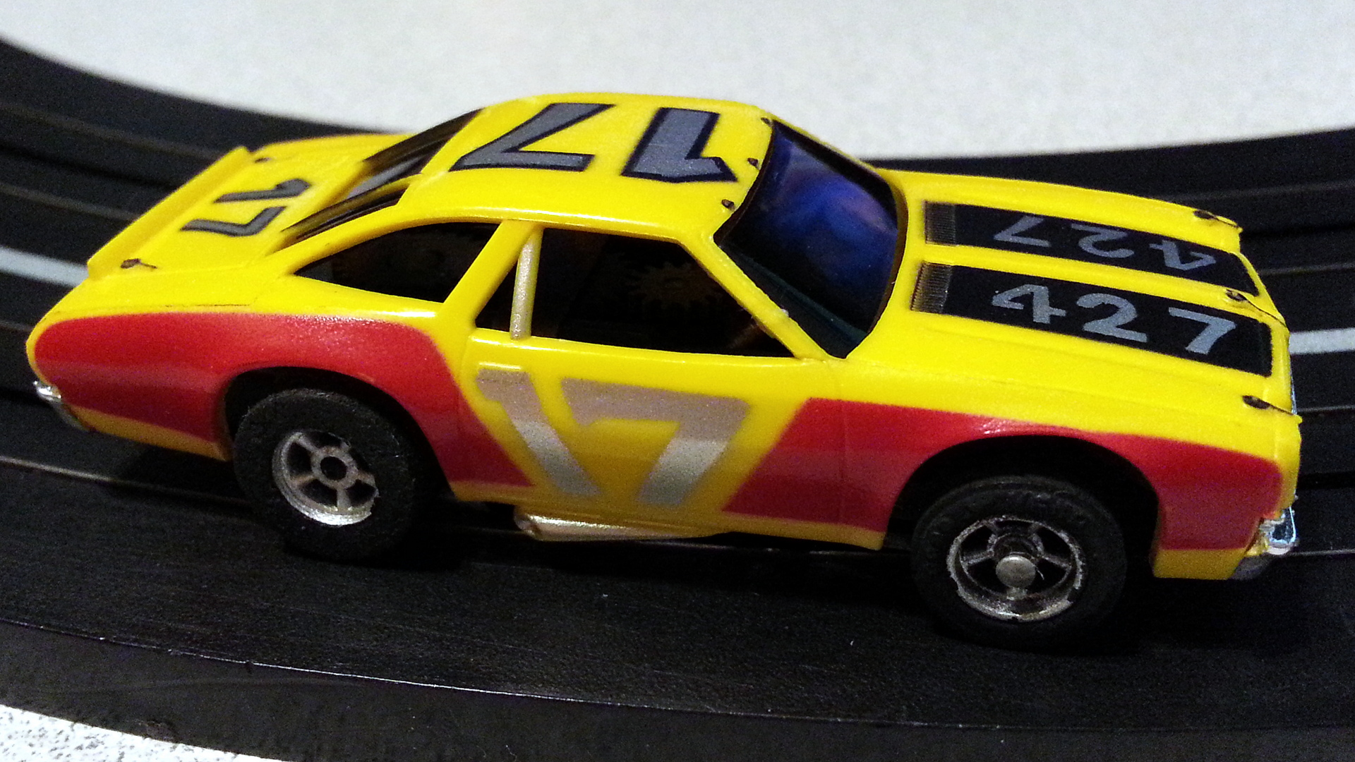 1929 1704 1974 CHEVELLE STOCKER Stock Car AFX Magna-traction